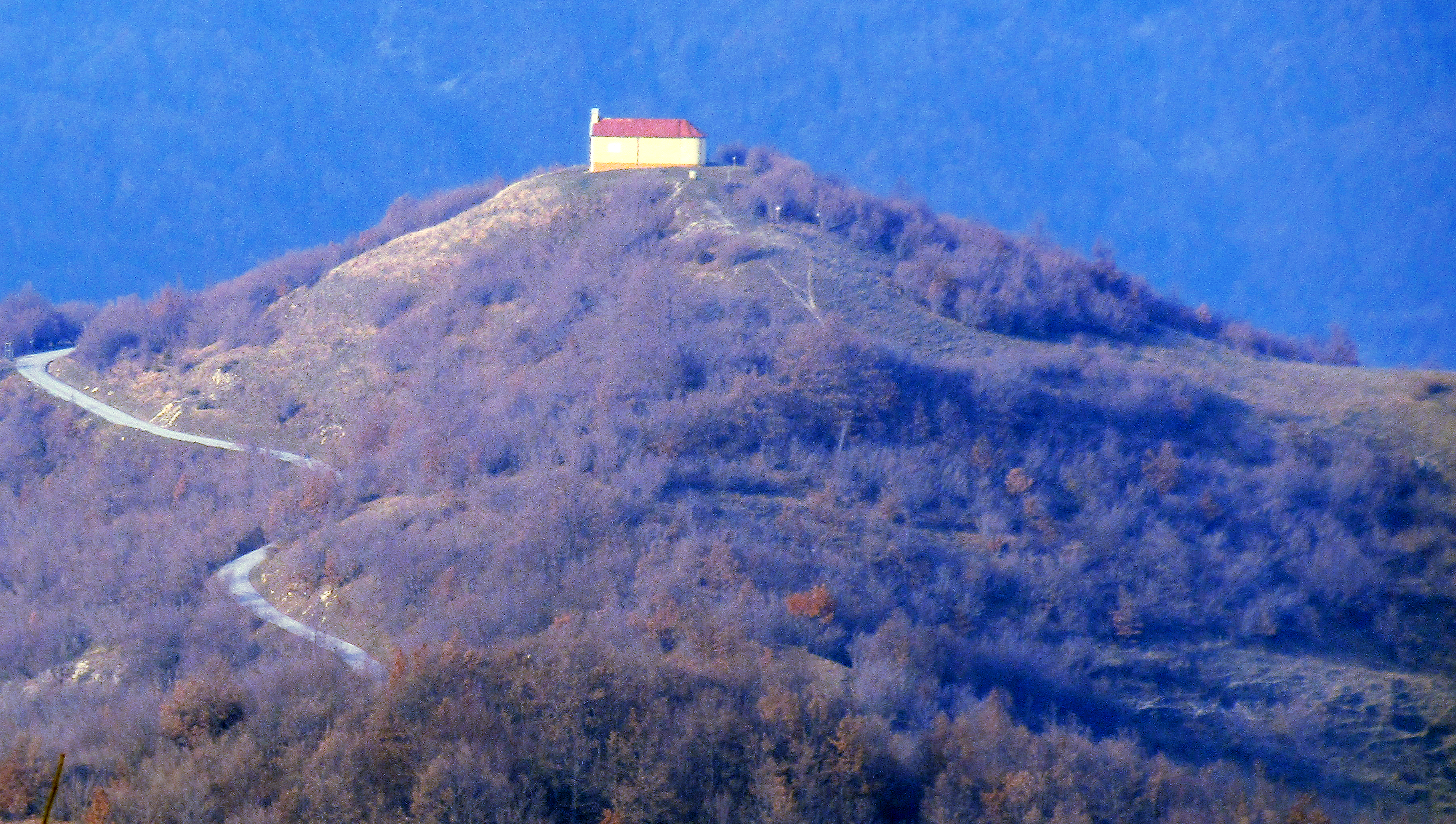 San Fermo chapel from Monte Buio (Ligurian Apennine)